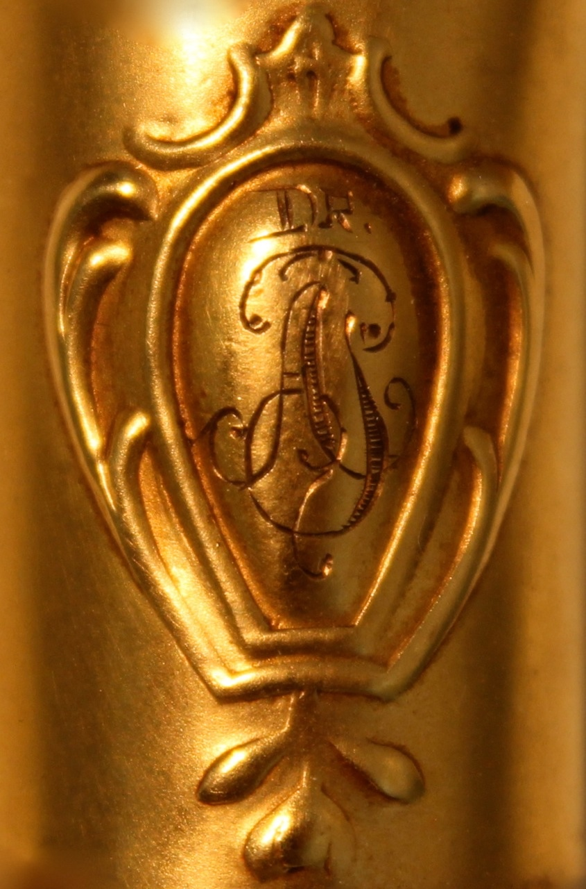 Monogram of the Brazilian engineer and politician Augusto Pestana (1868-1934).